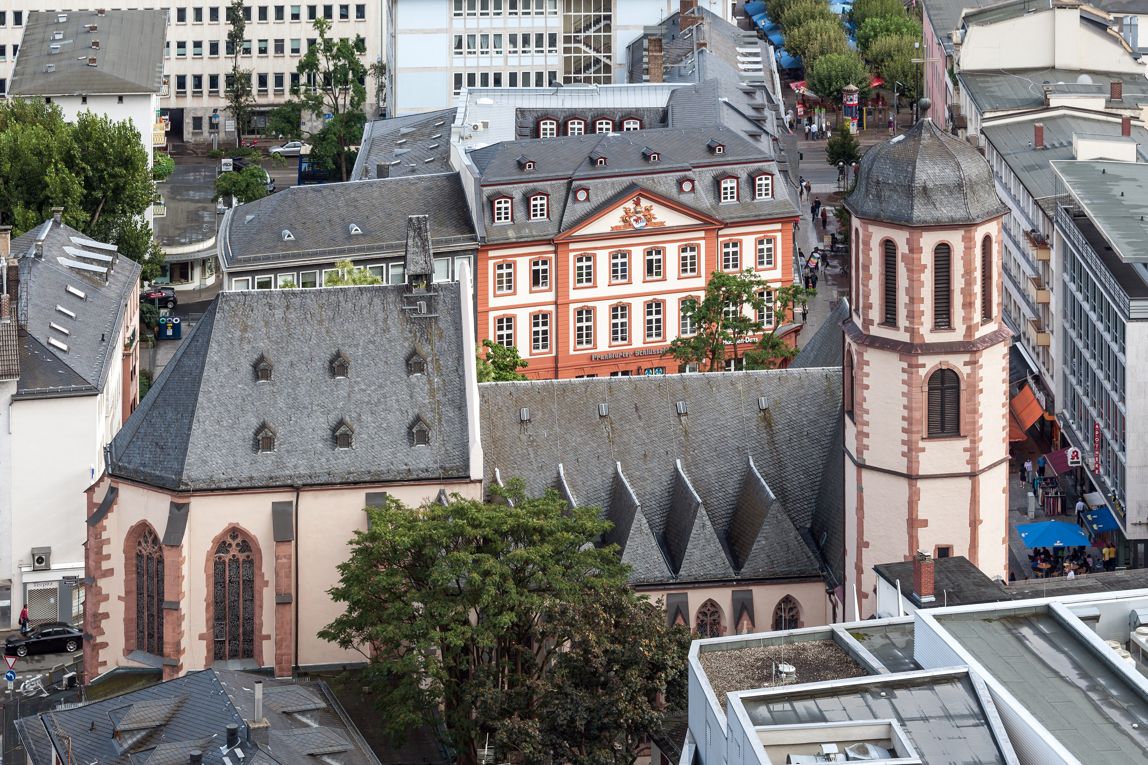 Frankfurt on the Main: Liebfrauenkirche (Our Lady's Church) as seen from the Nextower